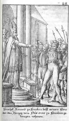 Bishop Konrad IV of Olesnica arrests his brother, Konrad VII.